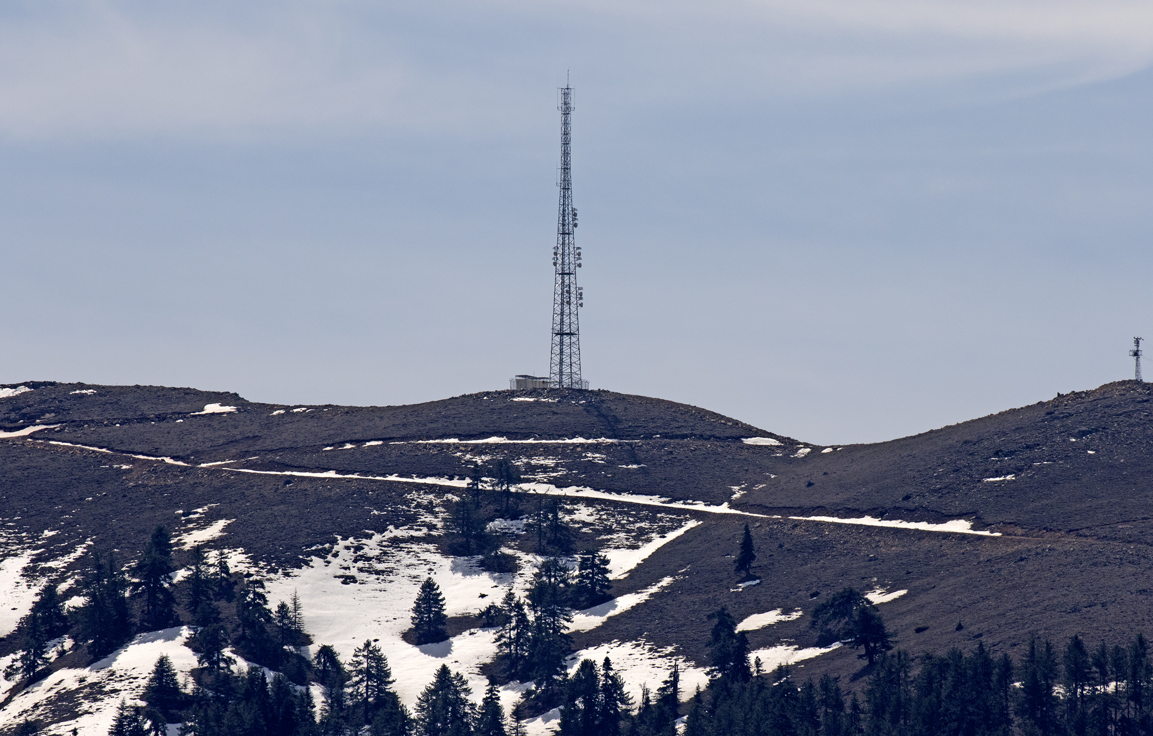 From Avcıpınarı neighborhood, a view of the base station on Süt Tepe (lit. meaning Milk Peak in Turkish). Saimbeyli - Adana, Turkey.